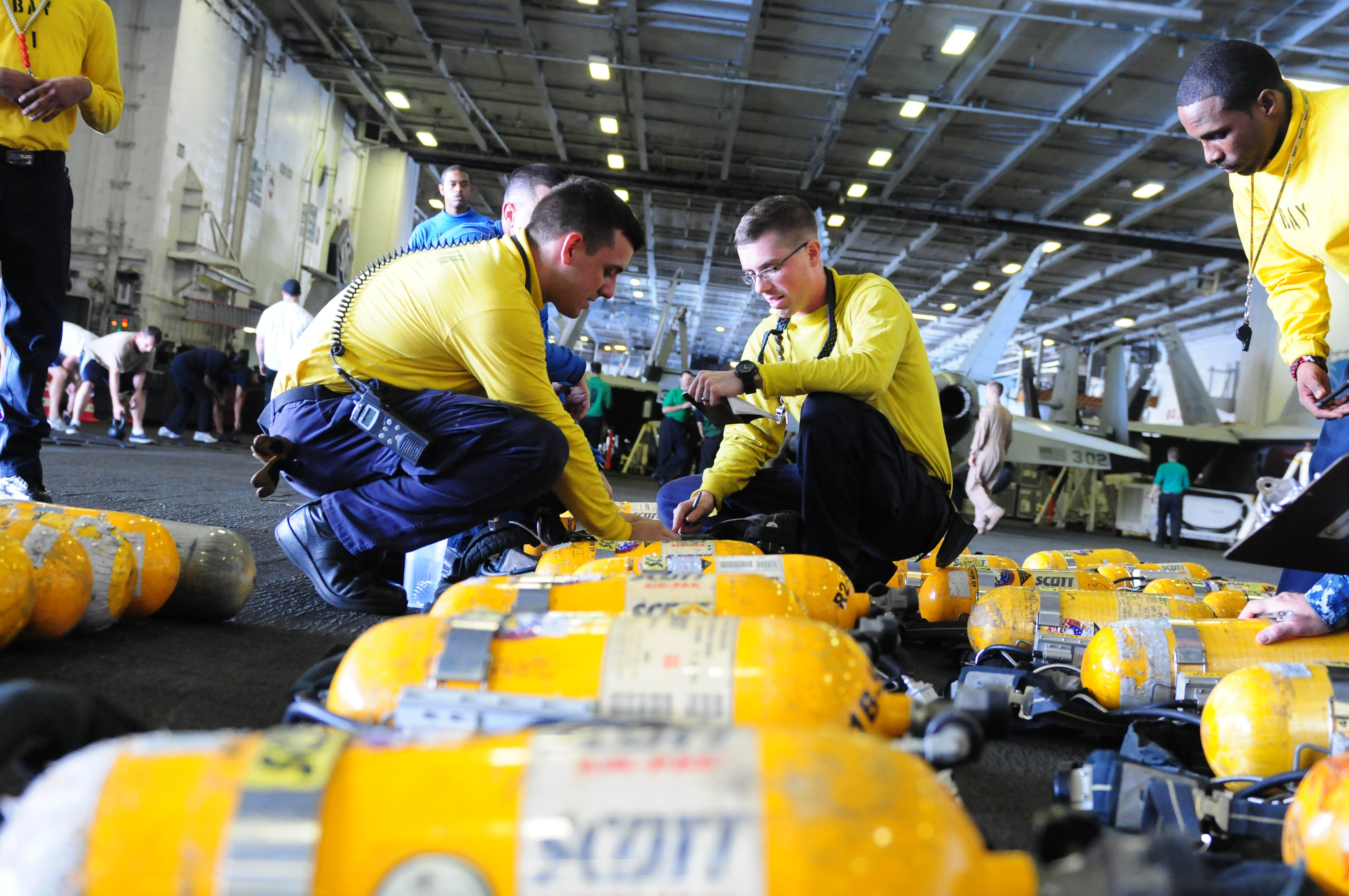 U.S. 5th FLEET AREA OF RESPONSIBILITY (Nov. 2, 2012) Sailors perform safety checks on self-contained breathing apparatus (SCBA) bottles aboard the Nimitz-class aircraft carrier USS Dwight D. Eisenhower (CVN 69). Dwight D. Eisenhower is deployed to the U.S. 5th Fleet area of responsibility conducting maritime security operations, theater security cooperation efforts and support missions as part of Operation Enduring Freedom. (U.S. Navy photo by Mass Communication Specialist Seaman Apprentice Madailein Abbott/Released) 121102-N-WJ640-106 Join the conversation navylive.dodlive.mil